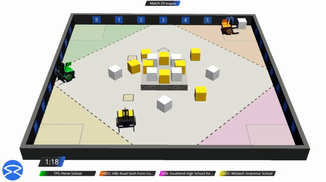 The virtual arena from the Student Robotics 2020 Livestream